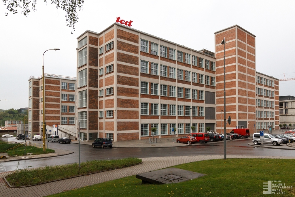 The new seat of the Regional Gallery of Fine Art in Zlin is in the fabric building Nr. 14 in the former industrial zone of Bata company.